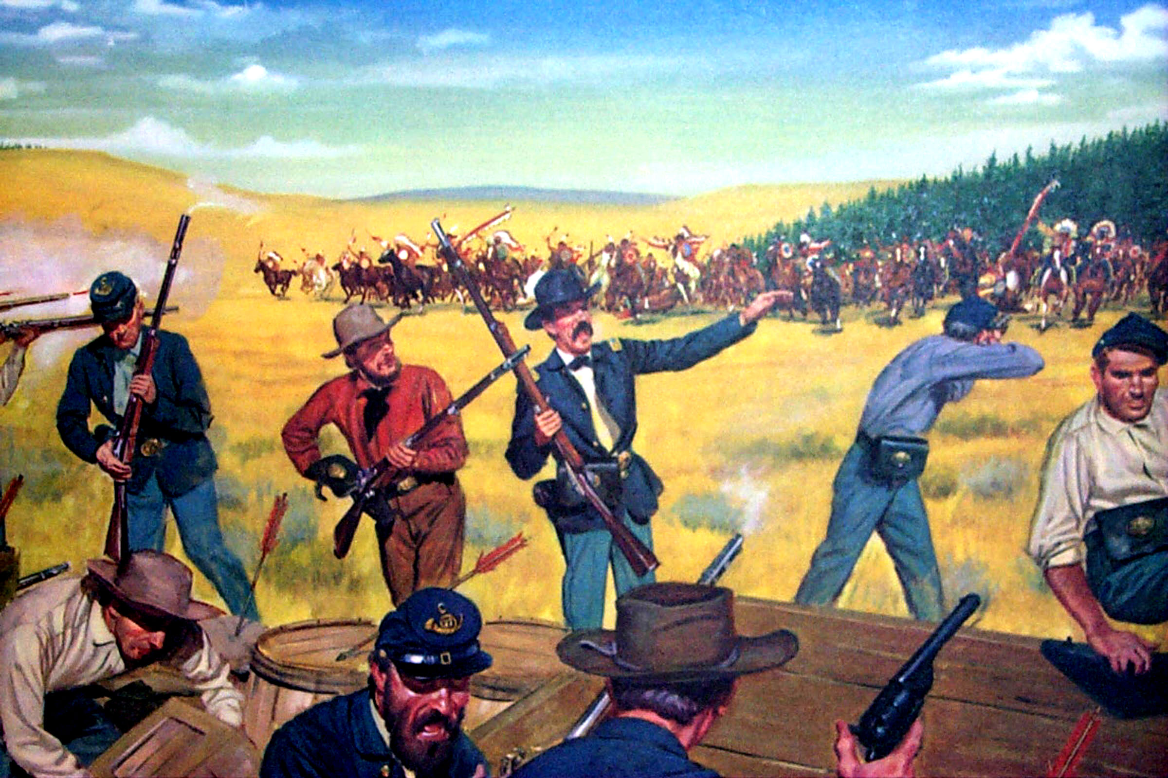 Near Fort Phil Kearney, Wyoming, 2 August 1867. The Wagon Box Fight is one of the great traditions of the Infantry in the West. A small force of 30 men on the 9th Infantry led by Brevet Major James Powell was suddenly attacked in the early morning hours by some 2,000 Sioux Indians. Choosing to stand and fight, these soldiers hastily erected a barricade of wagon boxes, and during the entire morning stood off charge after charge. The Sioux finally withdrew, leaving behind several hundred killed and wounded. The defending force suffered only three casualties. By their coolness, firmness and confidence these infantrymen showed what a few determined men can accomplish with good marksmanship and guts.